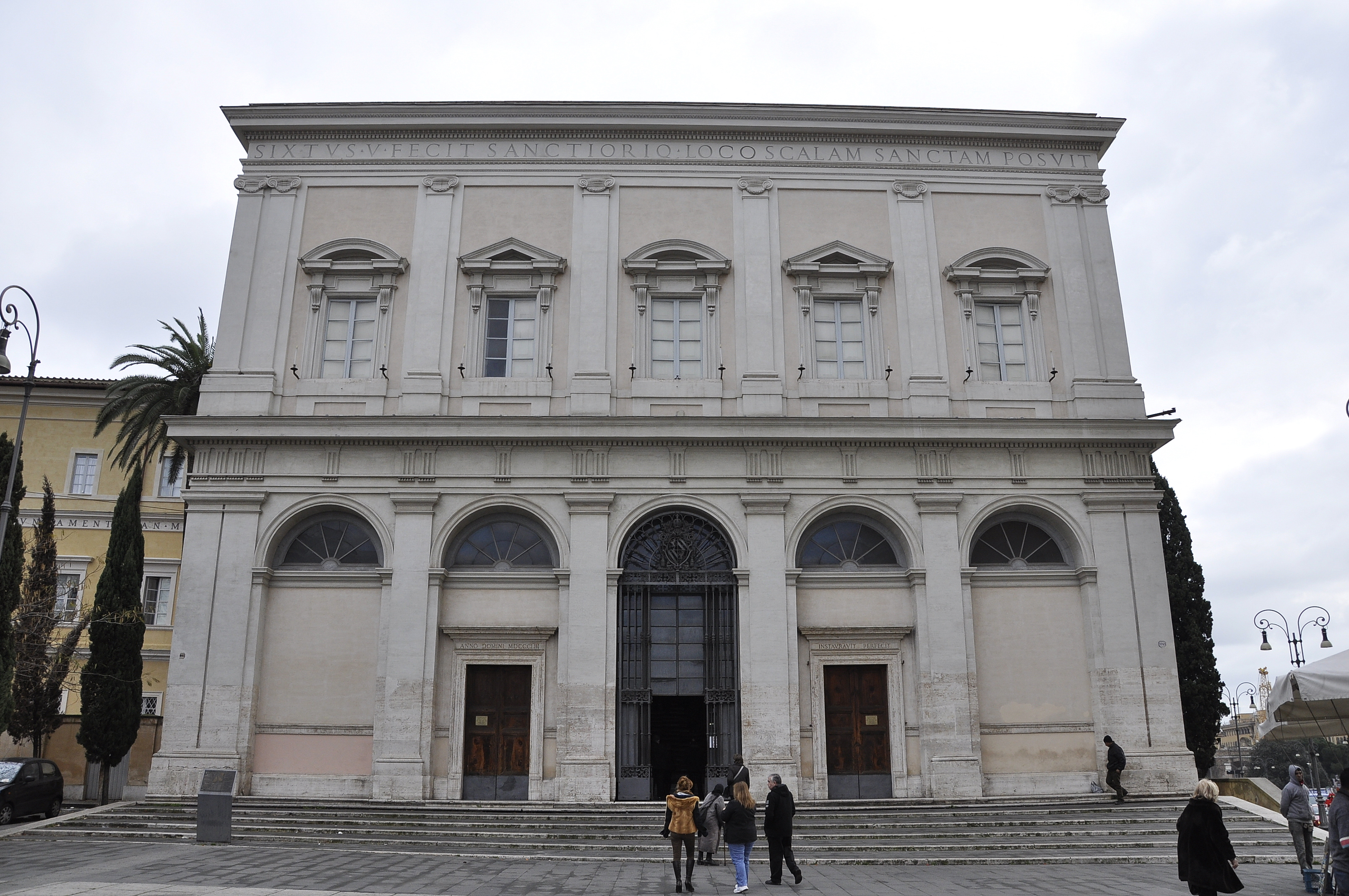 Scala Santa in Rome